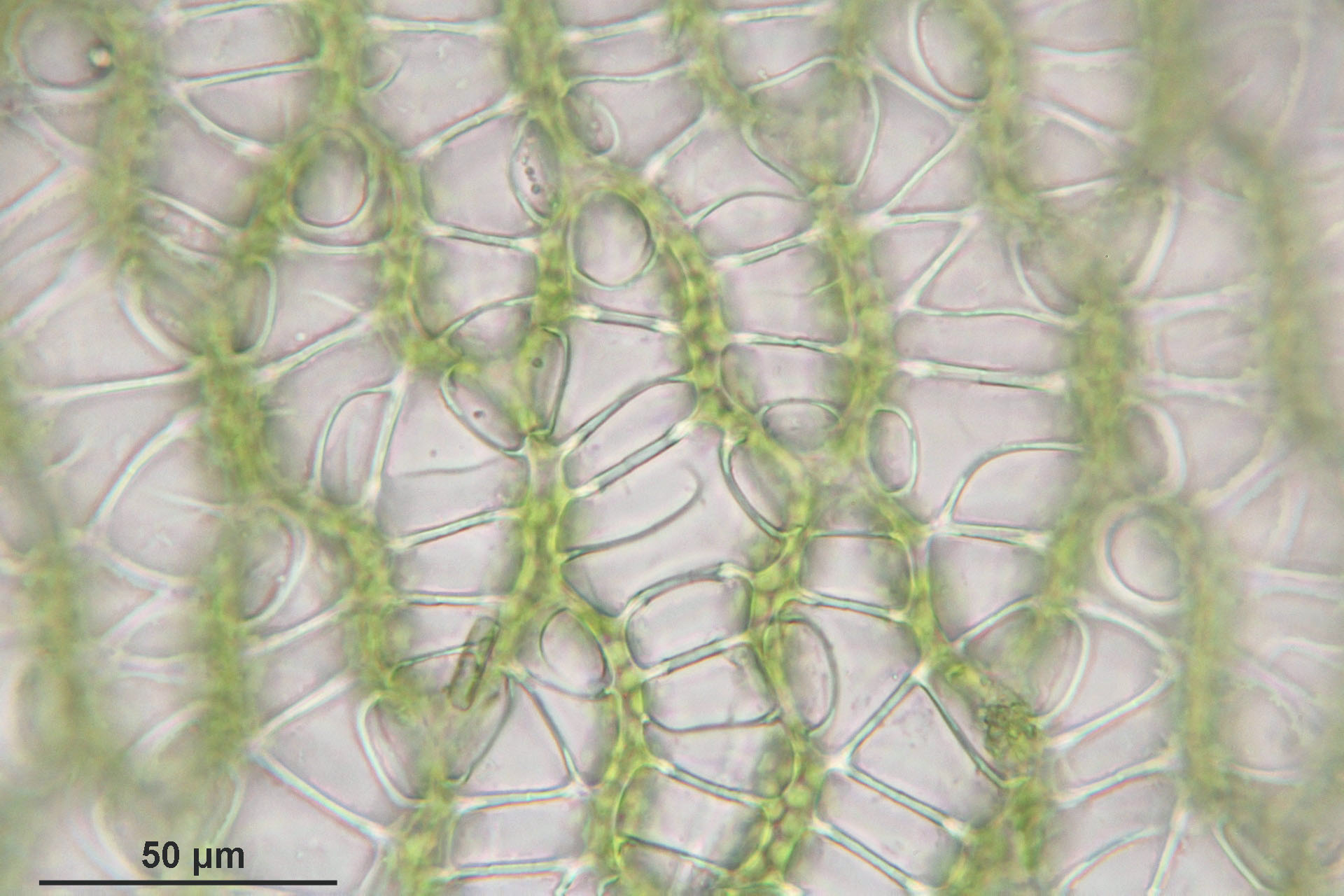 Sphagnum palustre